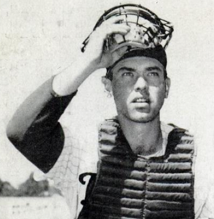 Philadelphia Phillies catcher Clay Dalrymple in a 1962 issue of Baseball Digest.